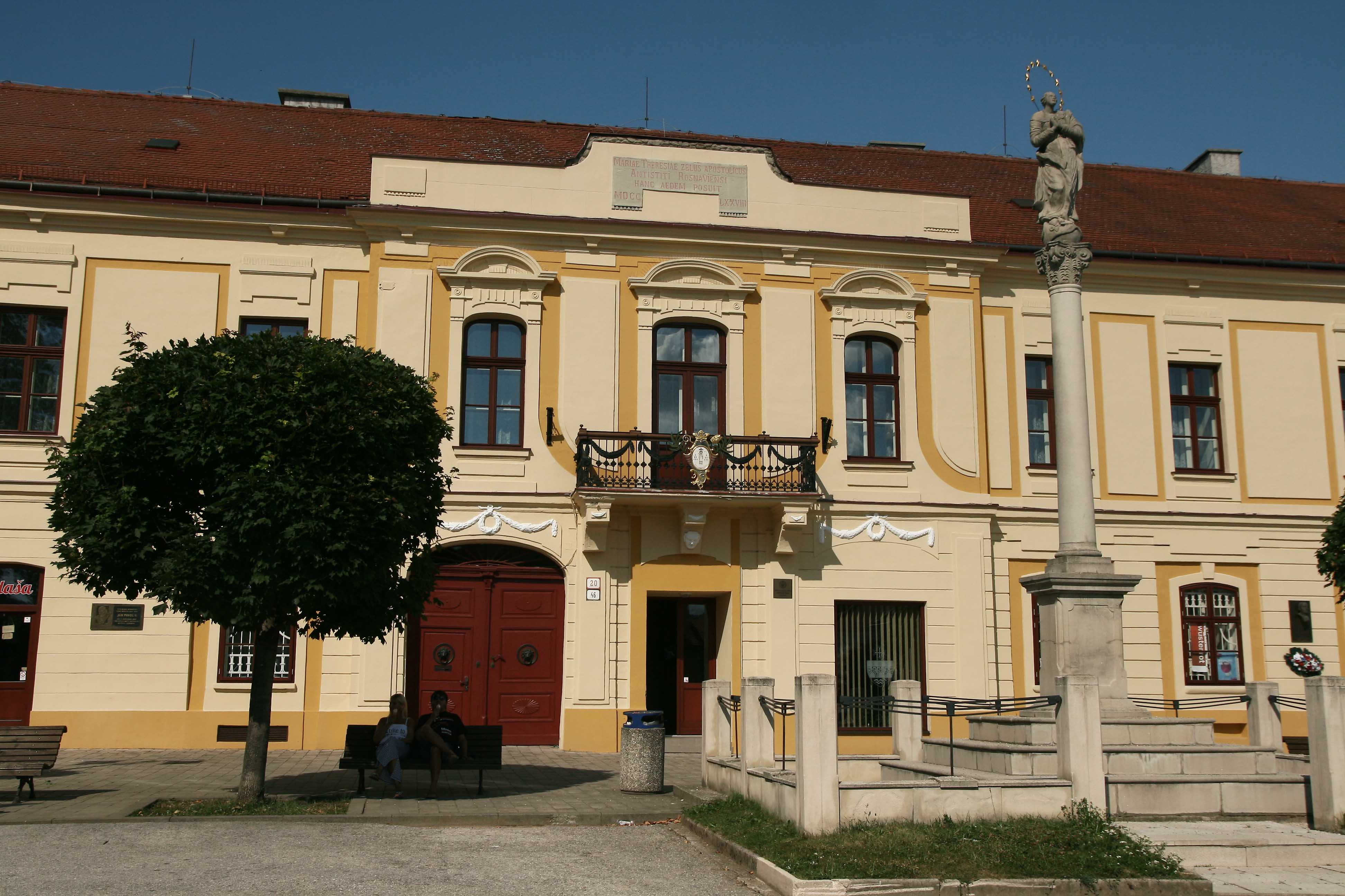 Episcopal palace and the Column of Virgin Mary in Rožňava, Slovakia.